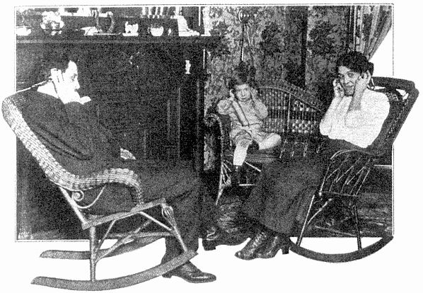 Publicity photograph of a family listening to a program from the Newark, New Jersey Telephone Herald, which appeared in the "The Telephone Newspaper--New Experiment in America" by Arthur F. Colton, in the March 30, 1912 Telephony magazine. This image is in the public domain in the United States, because it was first published in the United States prior to January 1 1923.